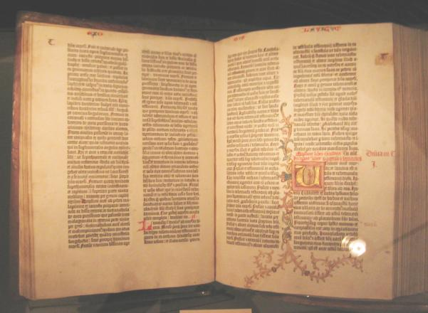 Facing pages of a gutenberg bible. Taken by me.